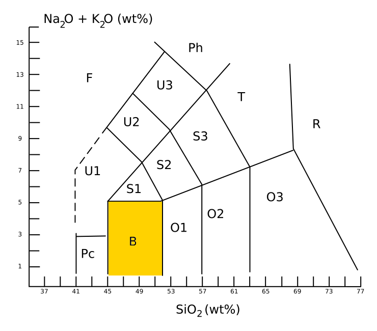 TAS diagram with basalt field highlited.